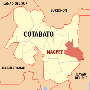 Map of the Cotabato showing the location of Magpet